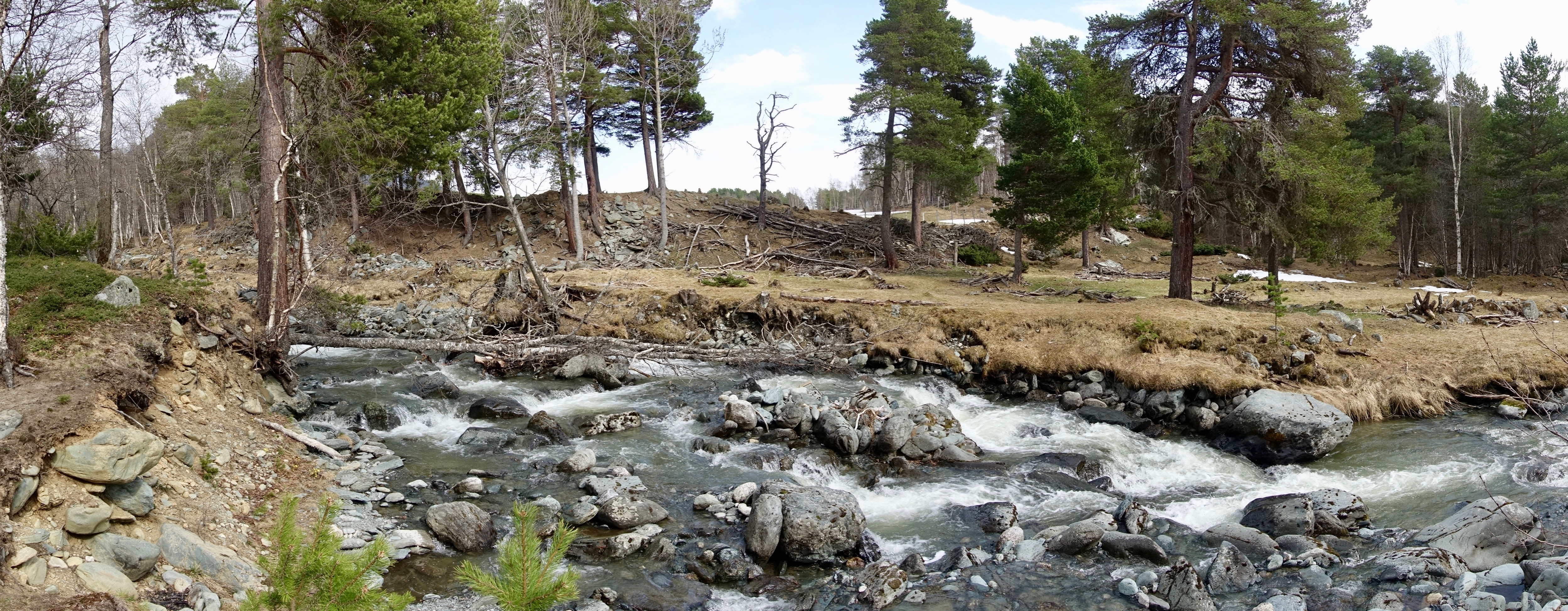 The Skjørdøla river east of The Vang Burial Site ("Vangfeltet" in Norwegian) in Oppdal, Trøndelag is Norway's largest burial field with ca. 900 tumuli/mounds from the iron and Viking age. Distorted panorama photo taken on 2019-04-25 (showing springtime with naked trees and snow on ground) (Gravfeltet på Vang i Oppdal i Trøndelag er Norges største kjente forhistoriske gravfelt med omkring 900 hauger og røyser fra jernalder og vikingtid, ca. år 400–1000.)